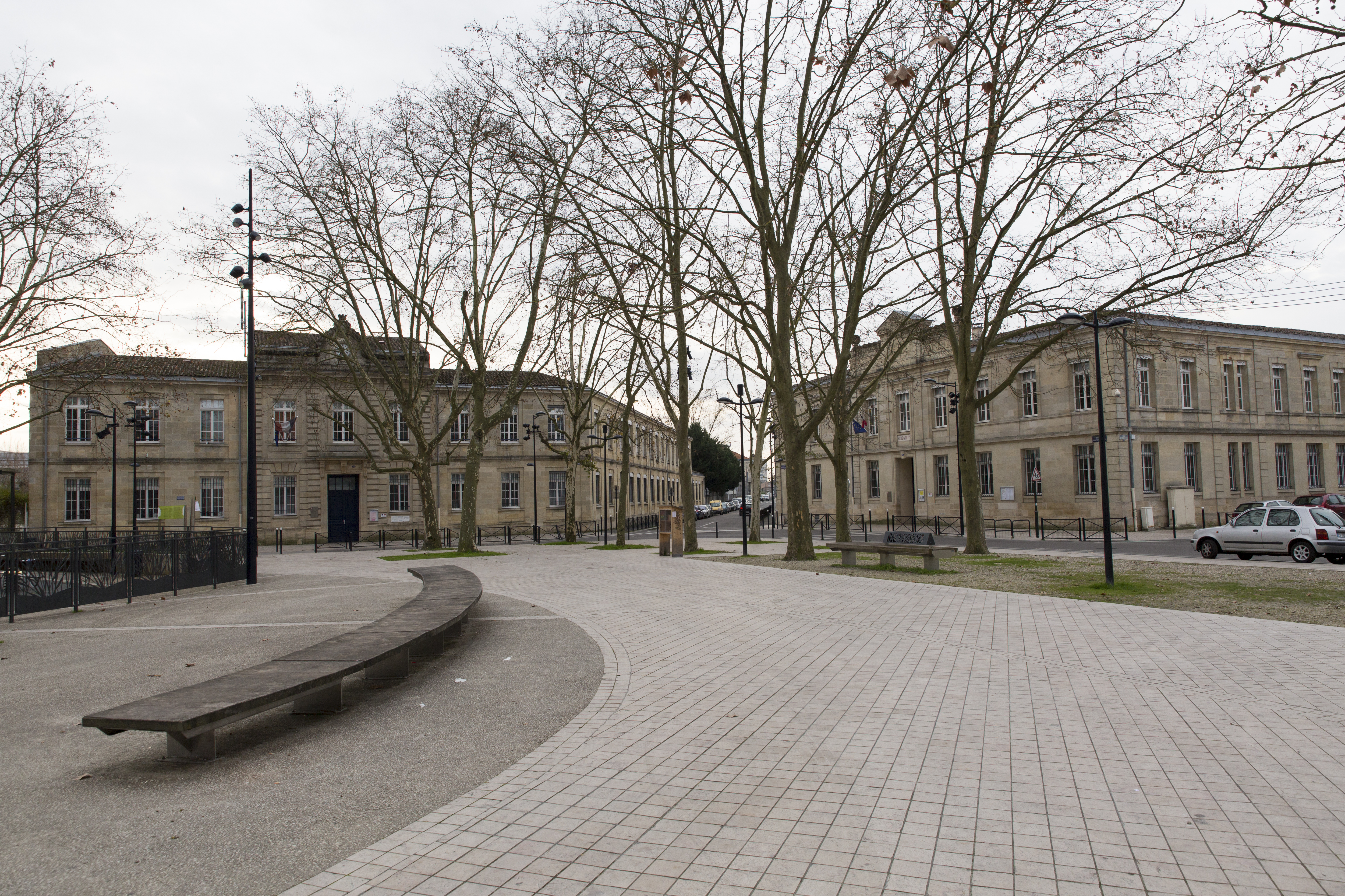 Place Ferdinand Buisson